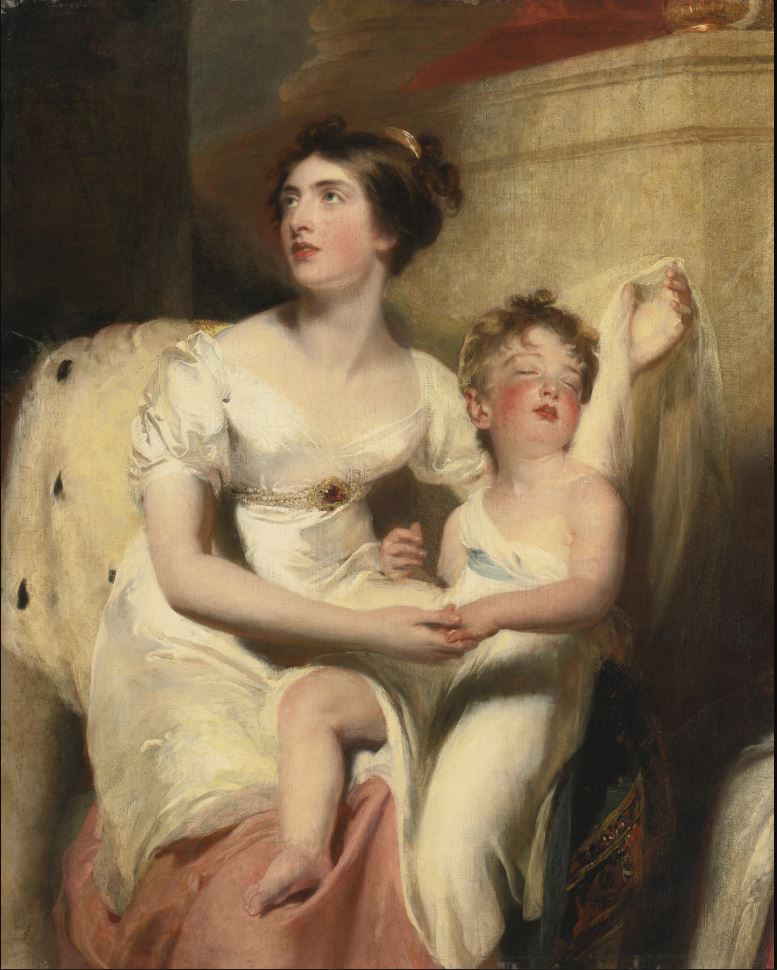 Anne, countess of Charlemont and her son James oil on canvas 126.7 x 101.3 cm circa 1805